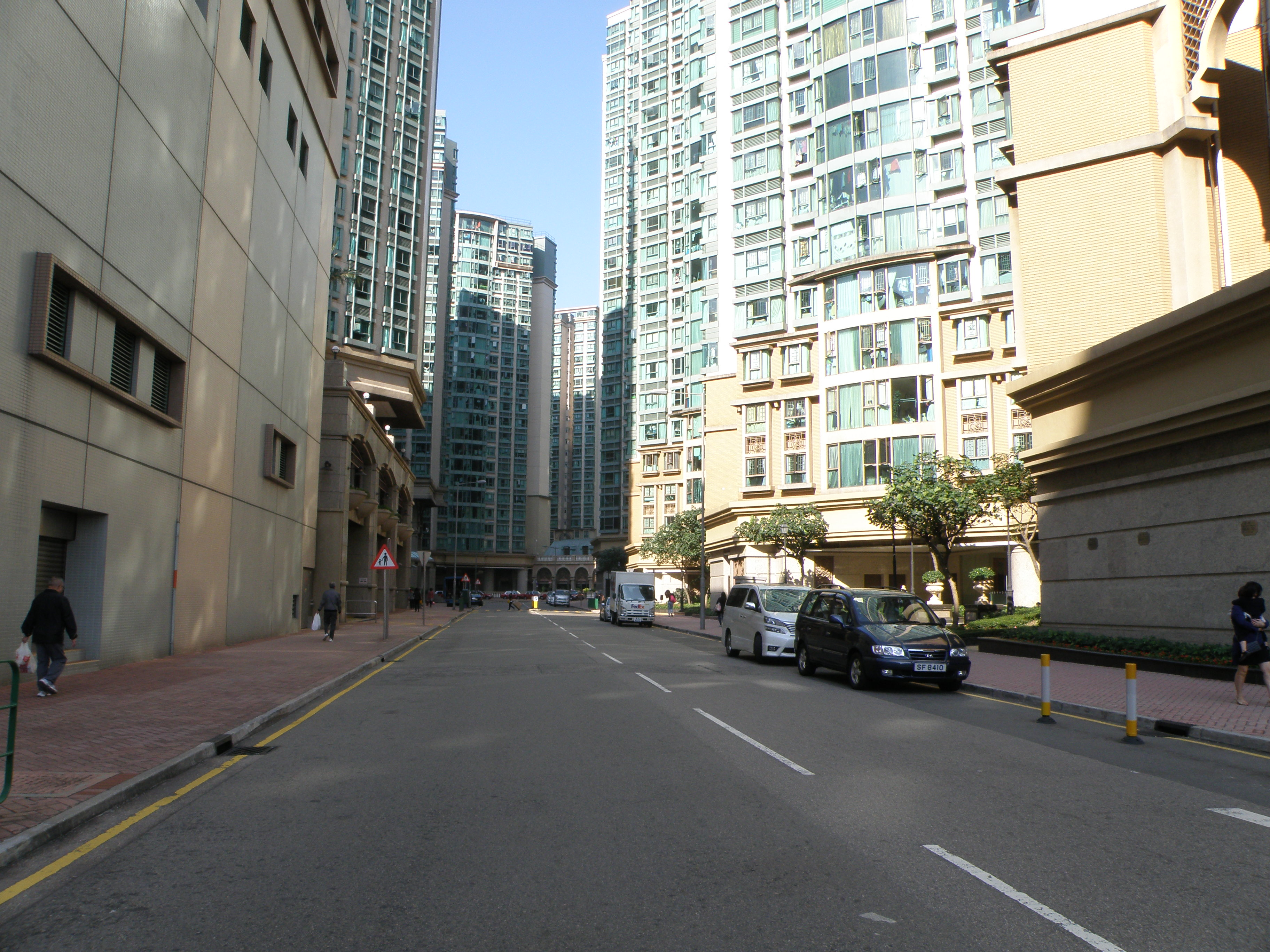 Laguna Verde Avenue in Whampoa, Hong Kong.